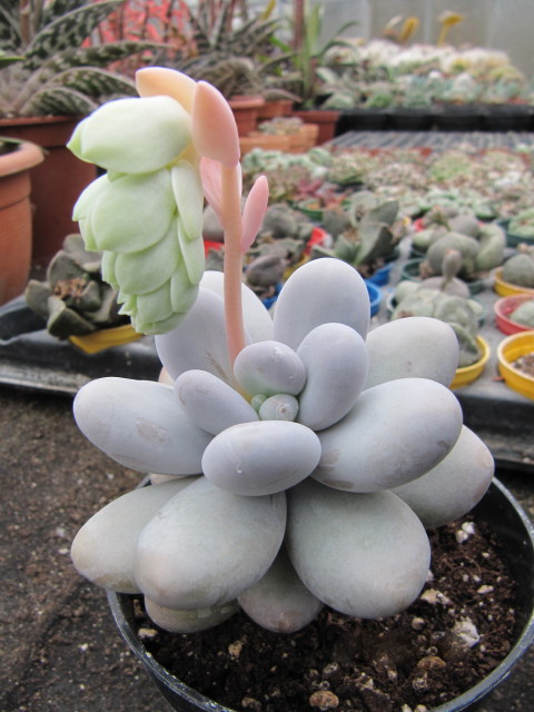 Pachyphytum oviferum in flower